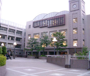 Osaki Campus, Rissho University. Located in Shinagawa, Tokyo, Japan.